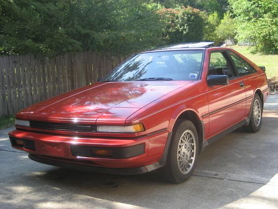 A typical example of an S12 generation vehicle. Picured is a Nissan 200SX Mark I.